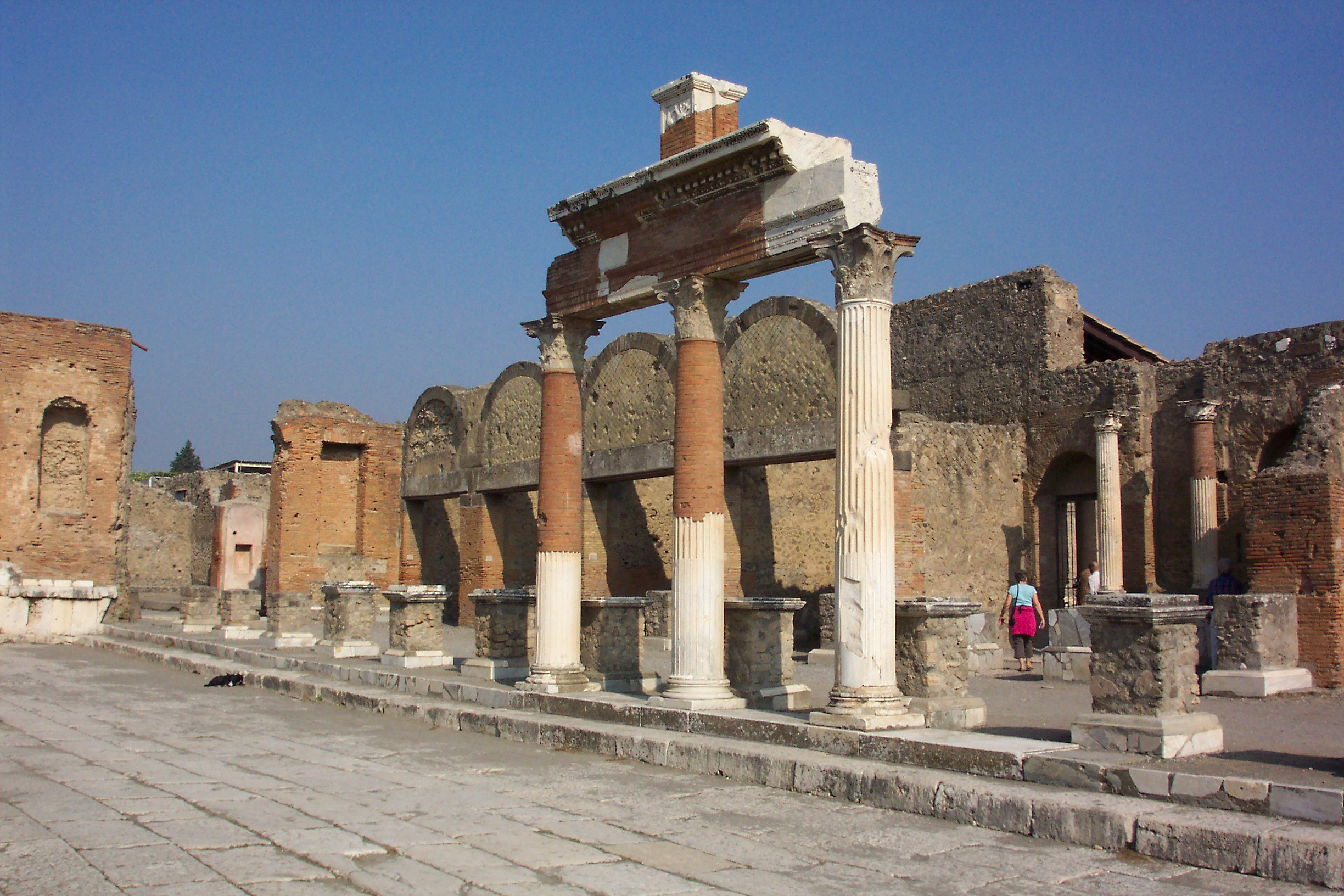 80045 Pompei, Metropolitan City of Naples, Italy